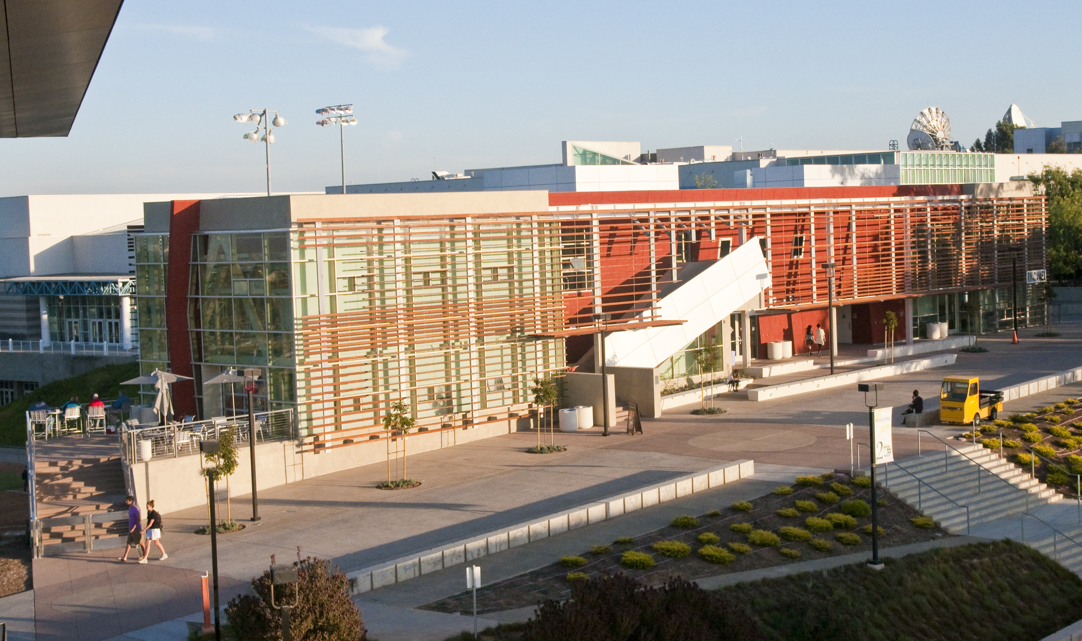 This is a photo of RIMAC Annex as seen from the Rady School of Management complex.